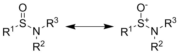 General structure of the sulfinamide functionality, showing both its non-charge tetravalent and zwitterionic resonance forms